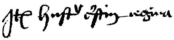 Note in guild ledger about Queen Christina (1470) of Sweden, as published by Ristesson Ent in Throne of a Thousand Years in 1996